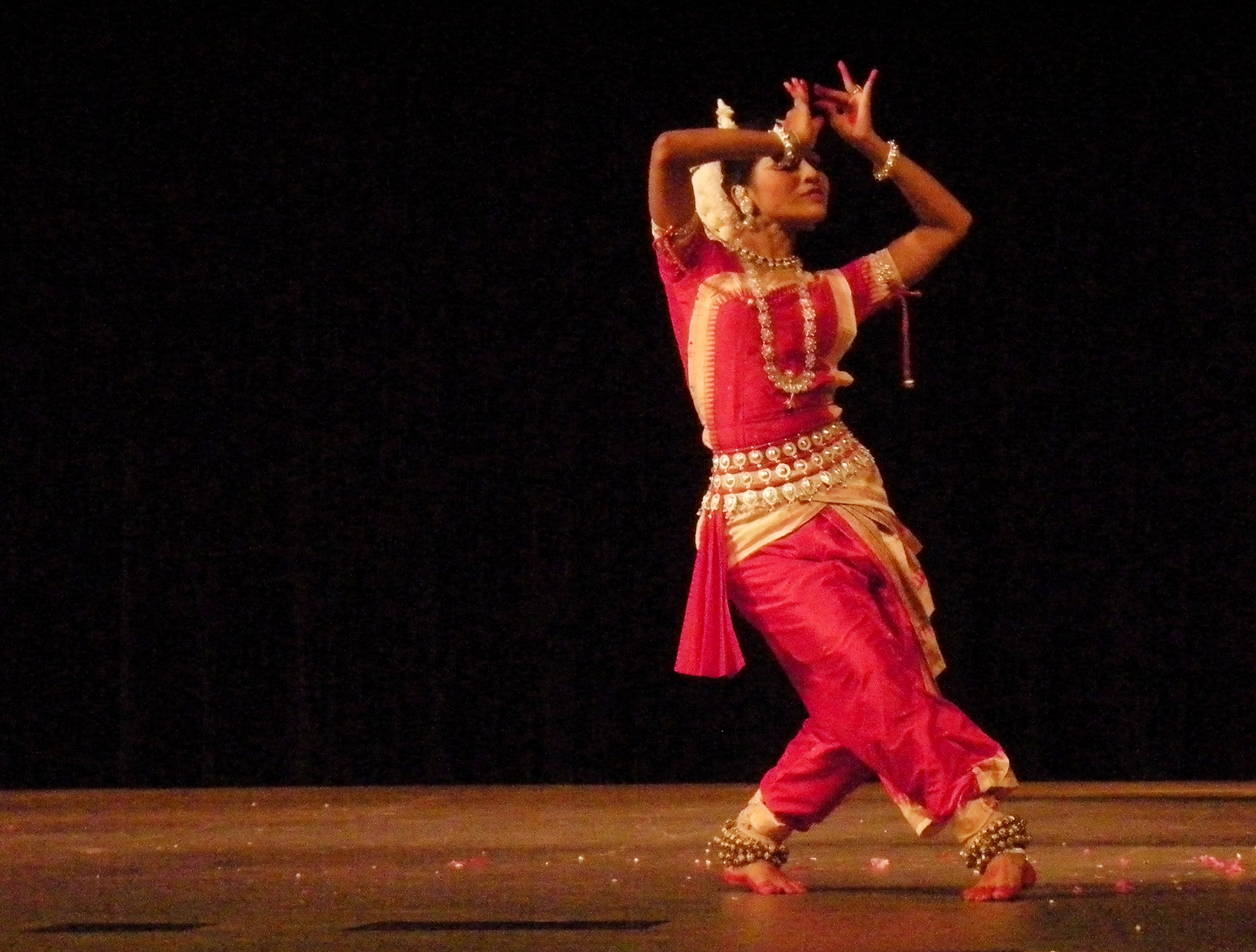 Performance by Odissi dance troupe Rudrakshya (with live musical accompaniment) at Interlake High School, Bellevue, Washington; performance in the Ragamala series (Greater Seattle). Information about the individual performers can be found on the Ragamala site.